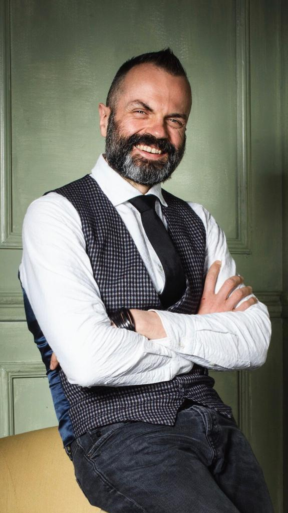 Marco Vinco, italian bass-baritone